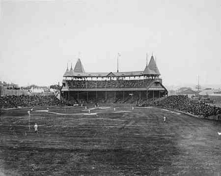 Title: South End Grounds, Walpole Street, Boston, Massachusetts, USA. Date of Original: 1893 Medium: 8" x 10" silver gelatin print Creator: not identified Description: Elevated view from the outfield of Walpole Street Grounds towards home plate. Players are on the field and the stadium is full. Publisher: N/A Source: The Bostonian Society (TBS) 14:12, 4 October 2006 . . Drewinmaine . . 450×358 (16,552 bytes)